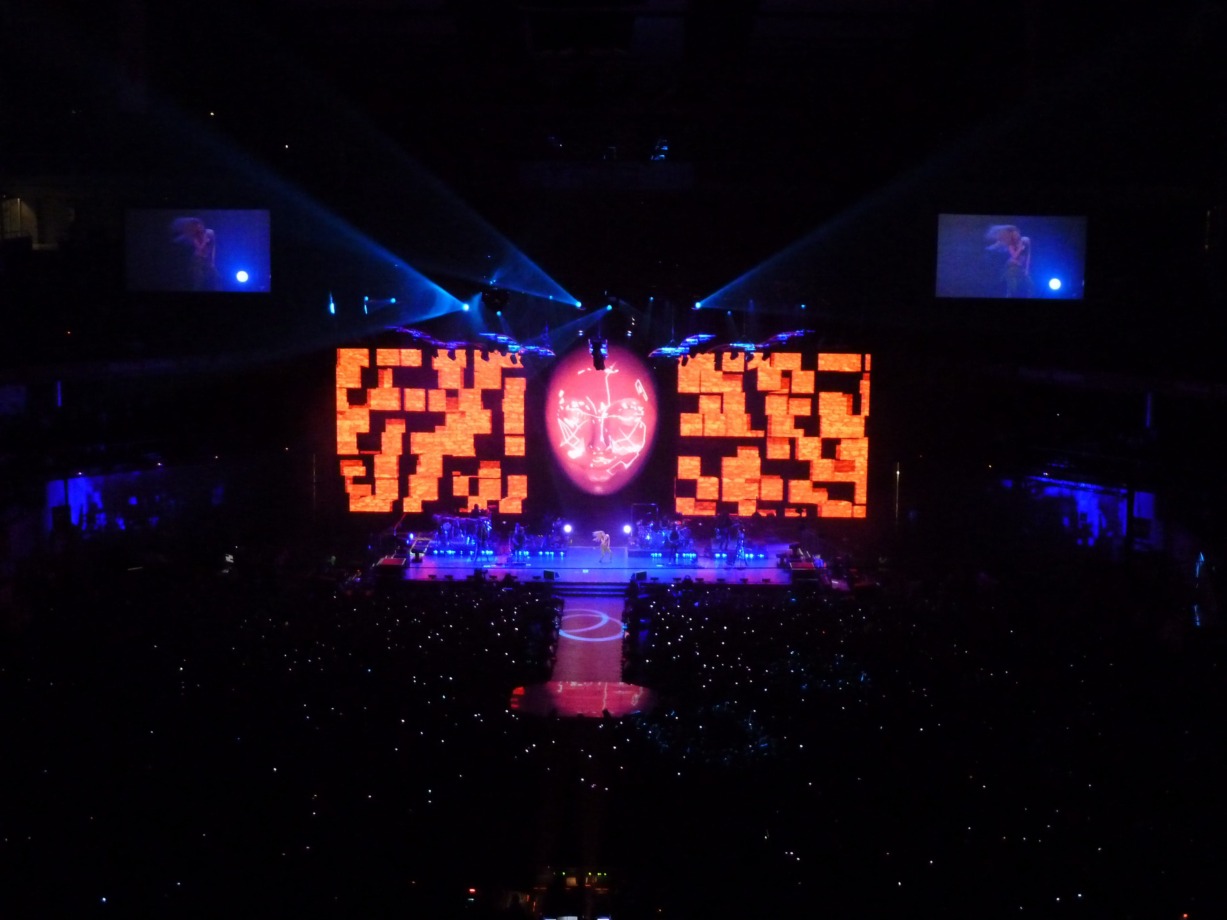 Shakira (Madrid)